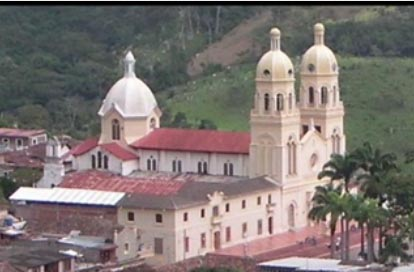 Picture of churche of Gramalote colombia